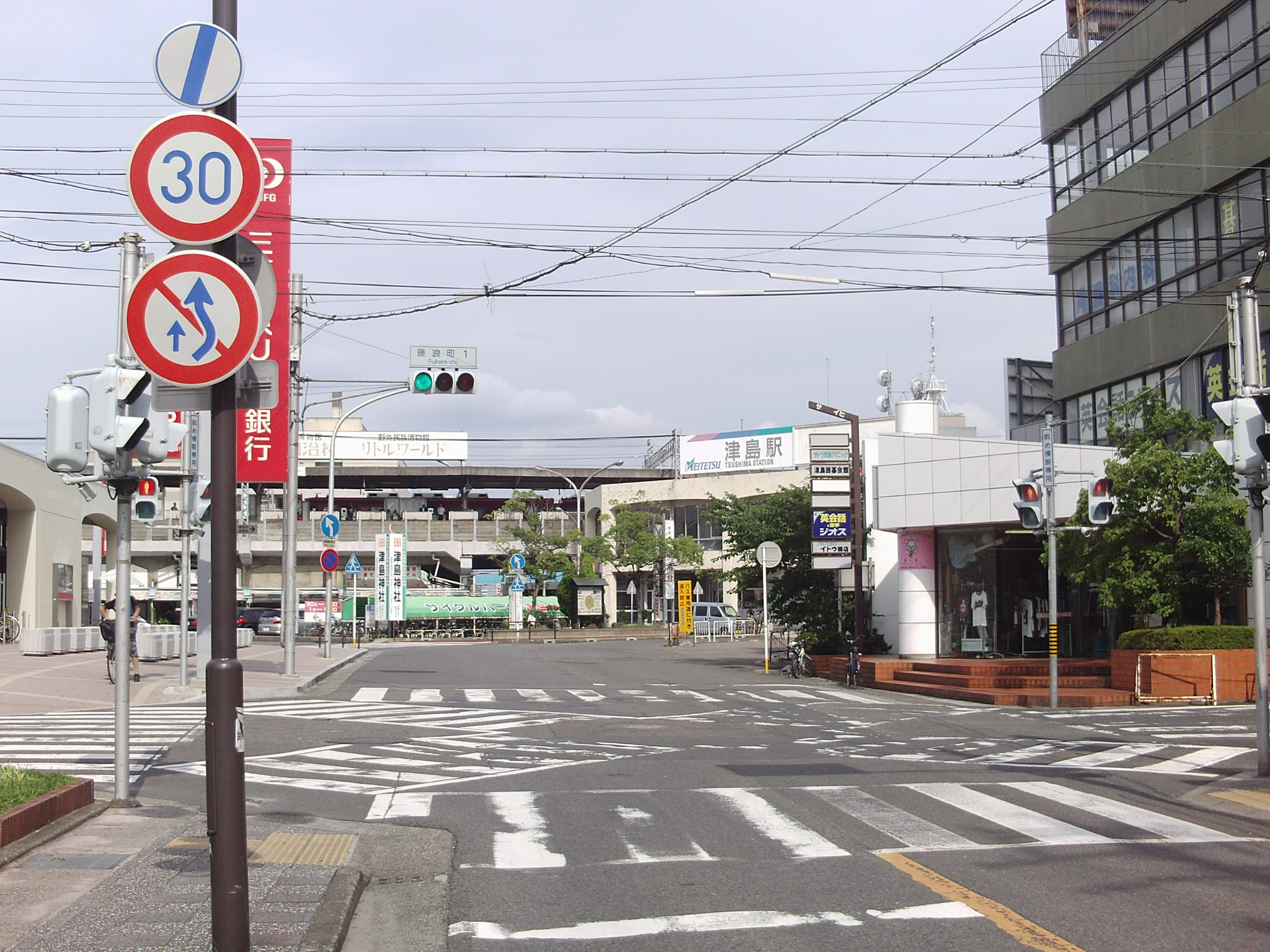 Aichi prefectural road No.138 in Fujinamicho 1-chome, Tsushima, Aichi. Starting point, Tsushima Station.